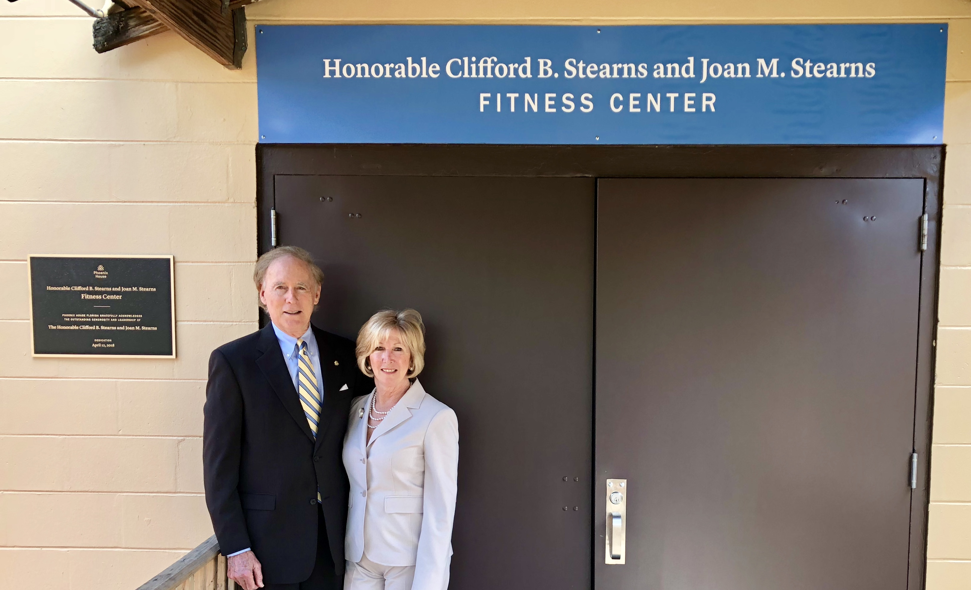 Cliff and Joan Stearns at the dedication of the Fitness Center for Phoenix House.